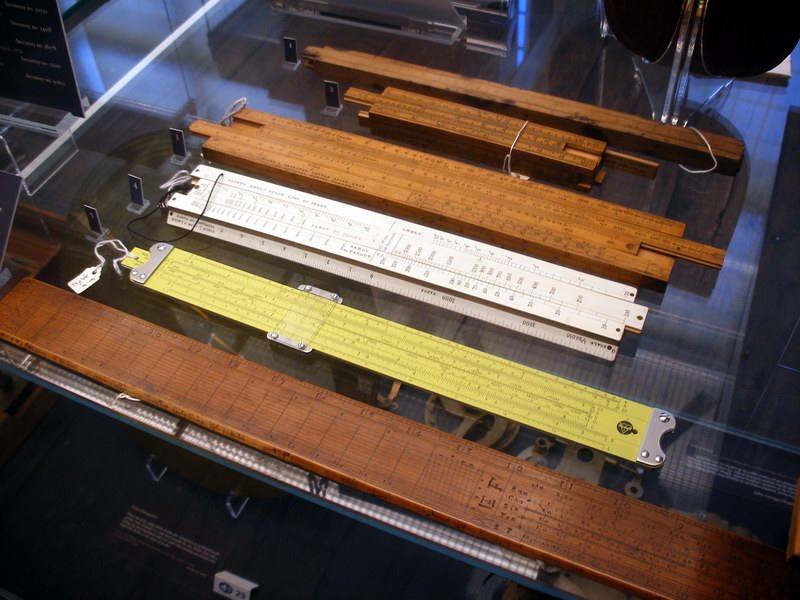 A number of slide rules. The white one is an artillery rule, for calculating how to aim a cannon depending on distance to the target. The yellow one is a general purpose Pickett model, typical of mid-twentieth century slide rules.